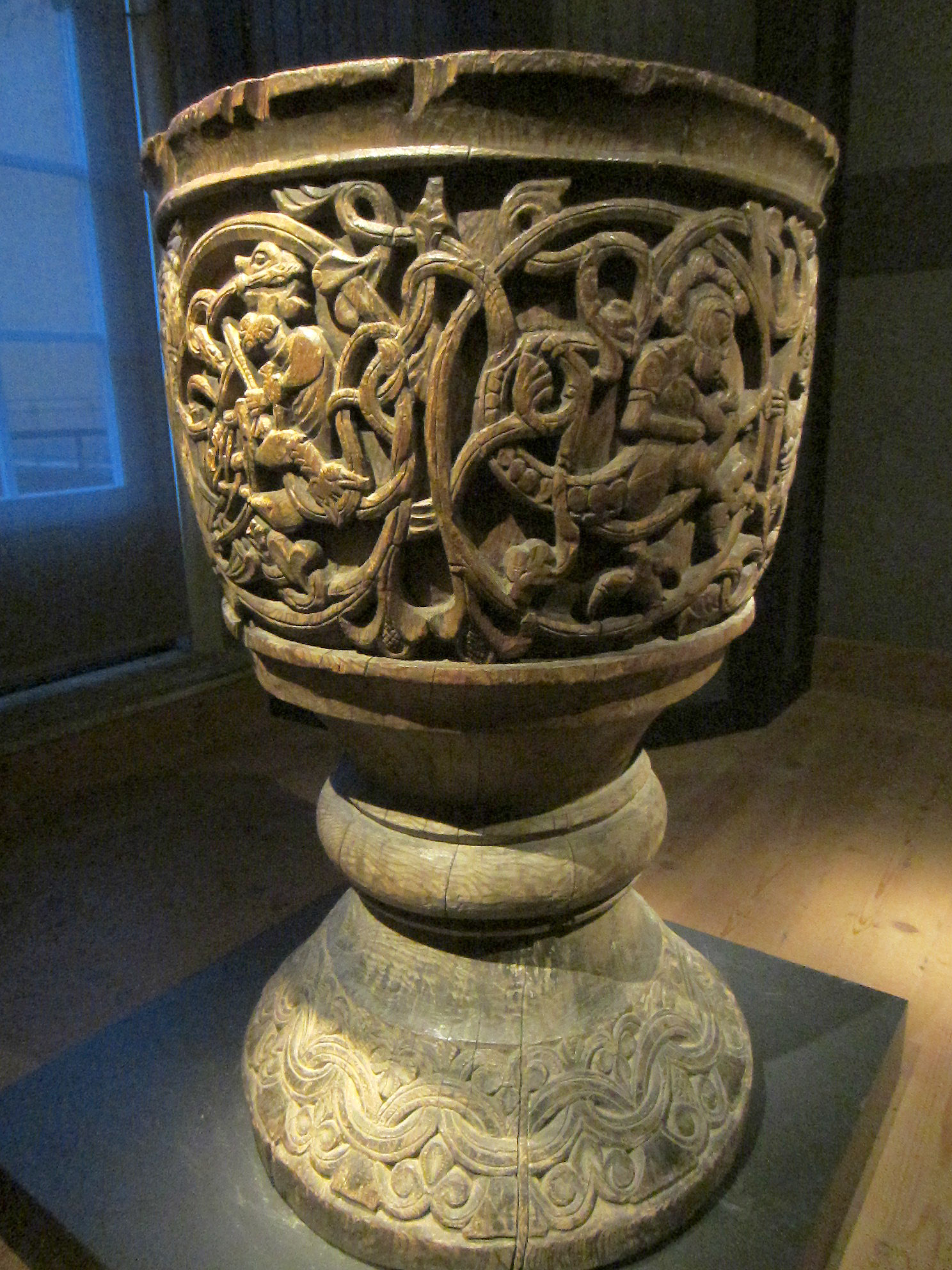 Medielval baptismal font from Näs Church, Sweden.